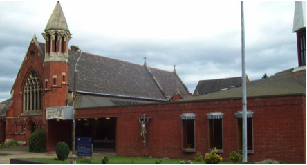 St Mary's Roman Catholic Church, Vivian Road, Harborne, Birmingham, England, seen from the west